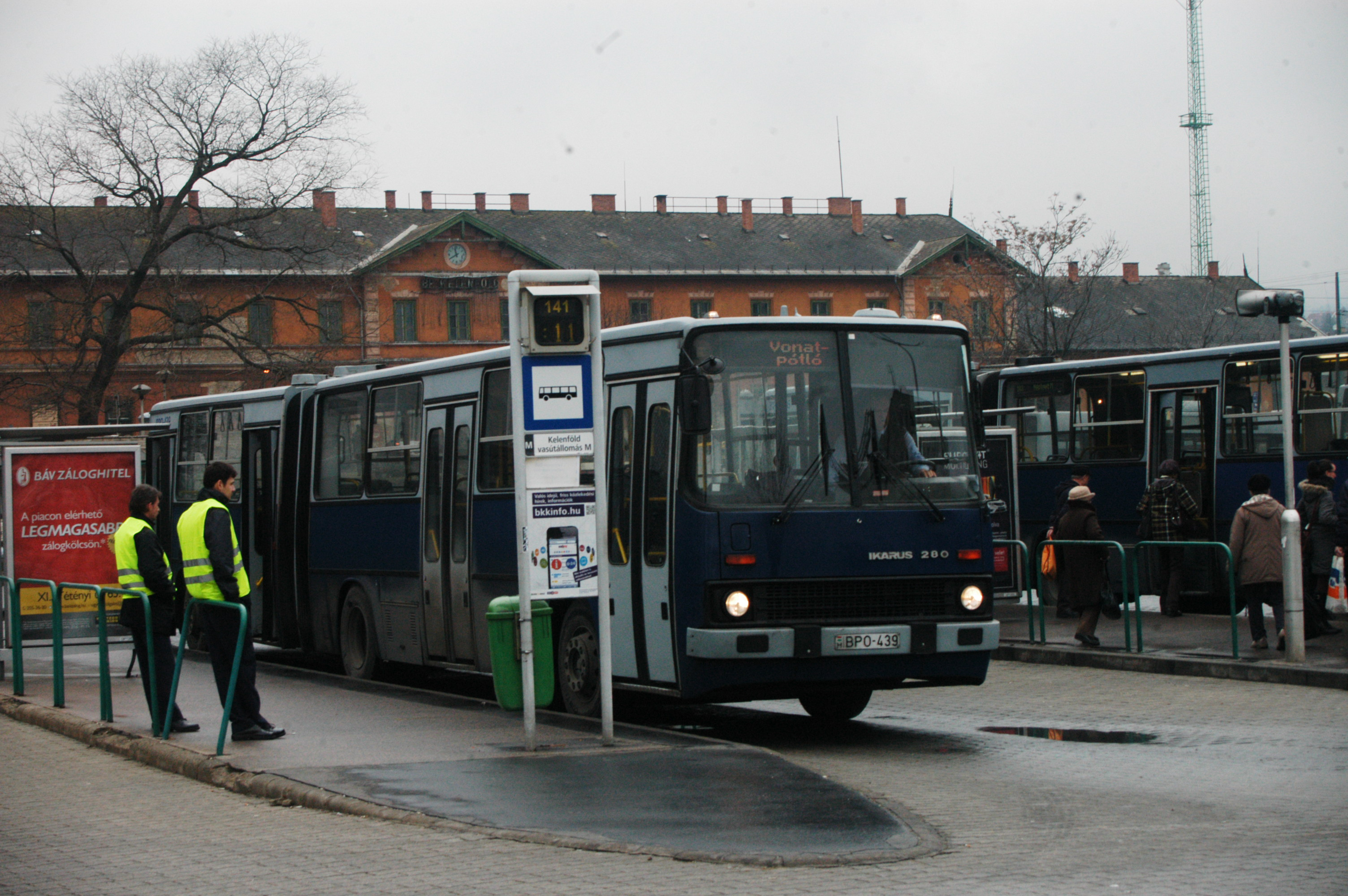 Ikarus 280 bus (reg. BPO-439), train replacement bus, Budapest